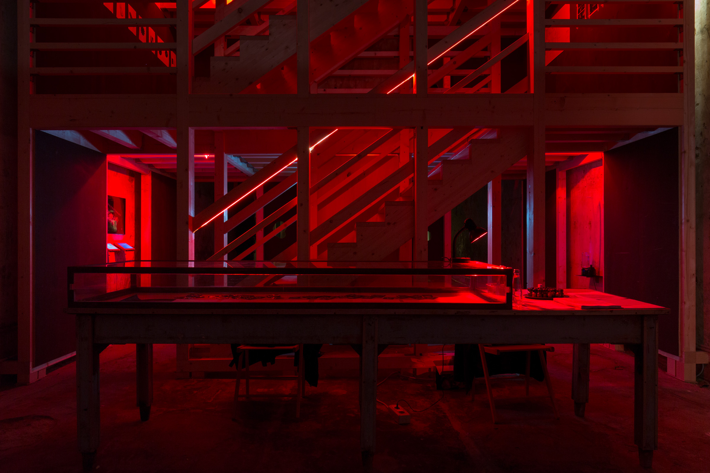 This is a photo of the Cruising Pavilion art exhibition from the Venice Bienalle of Architecture 2018.